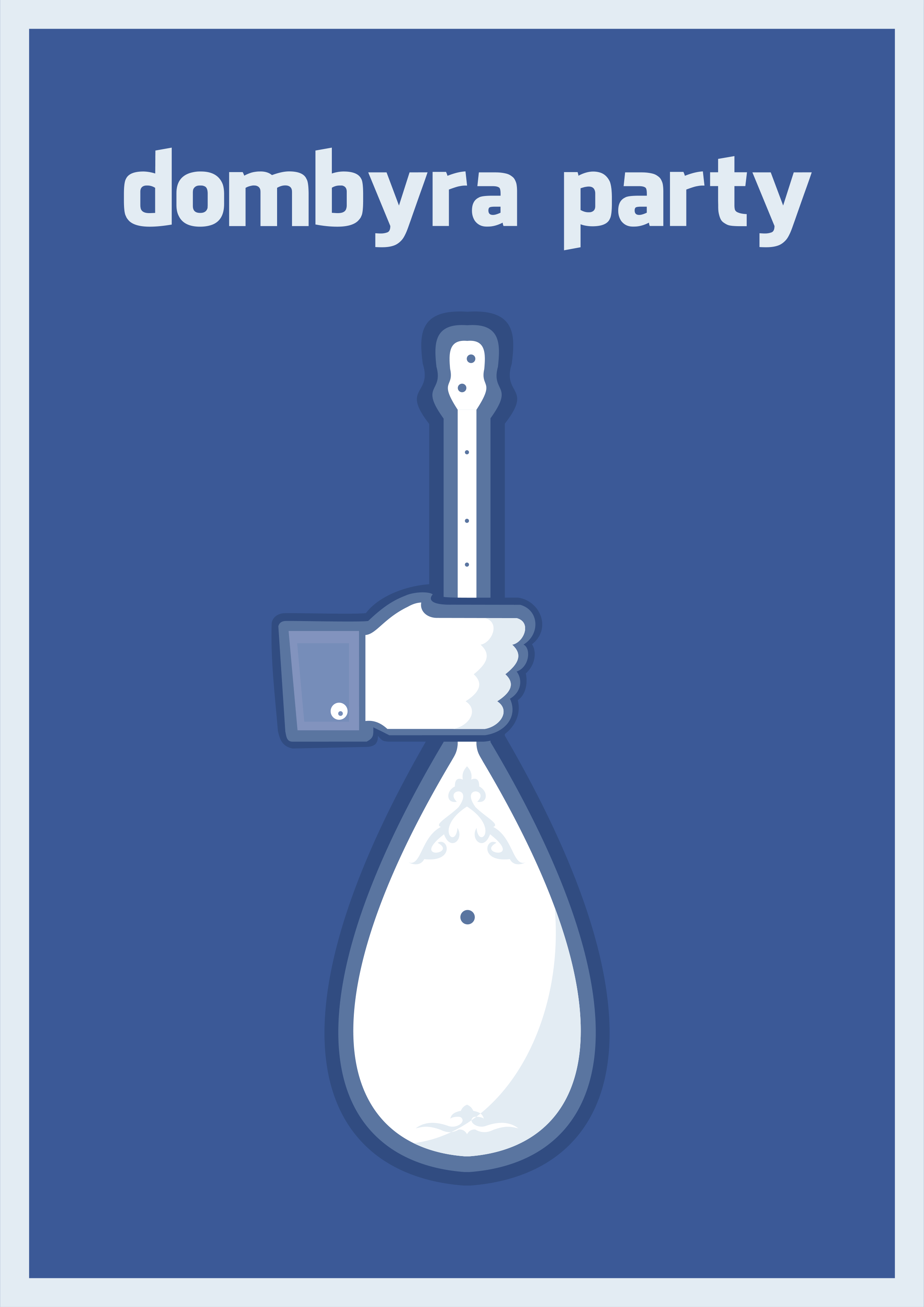 DОМБЫРА PARTY шарасына арнайы дайындалған фейсбук стиліндегі постері. Суретте қазақ жерінің батыс аймақтарында кеңінен таралған төкпе жанрындағы домбыра суреті.